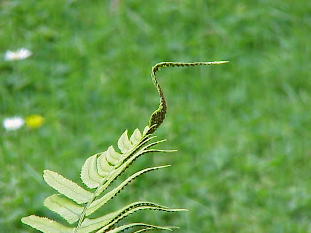 Species: Dryopteris atrata Family: Aspidiaceae Image No. 2